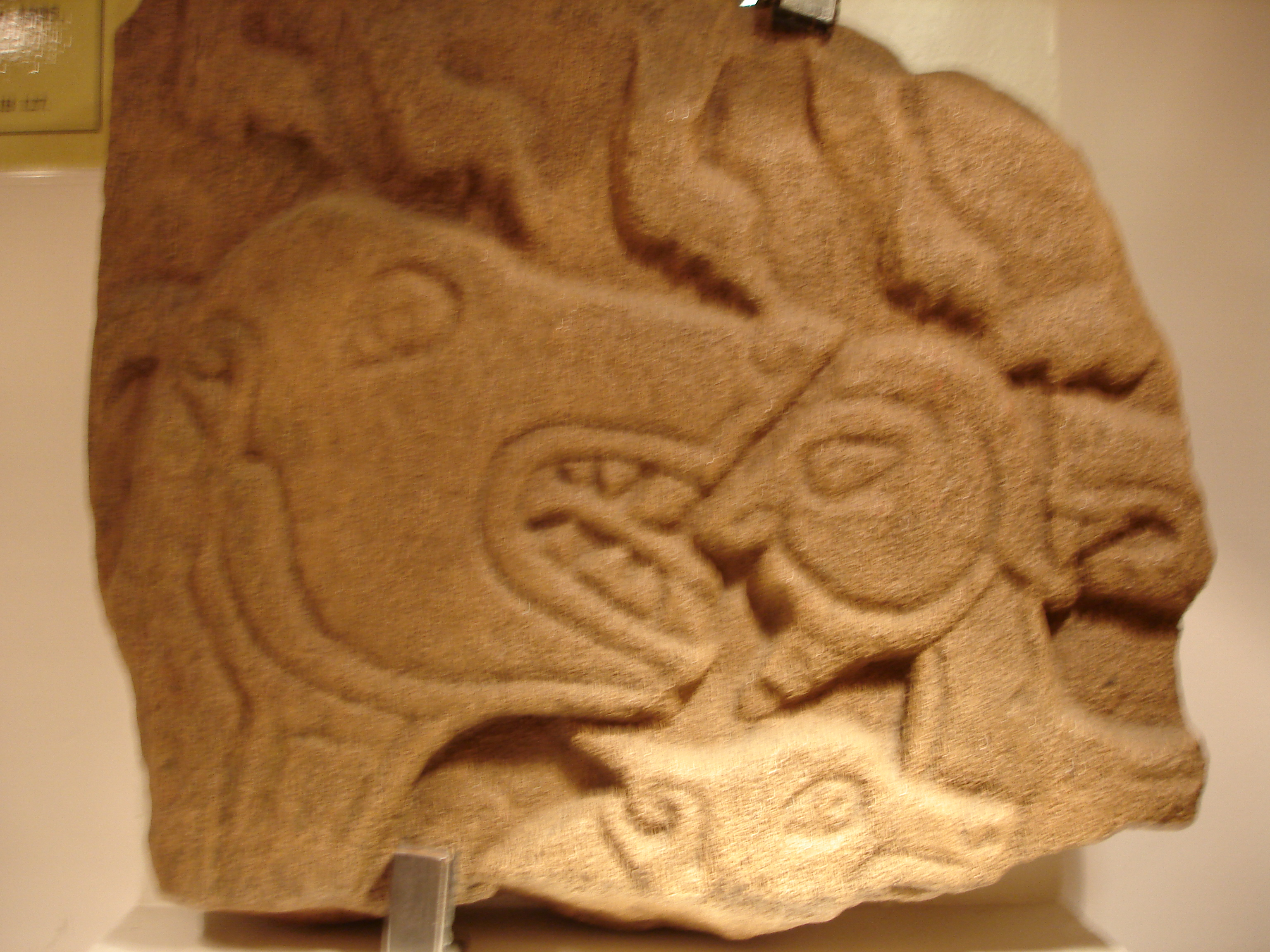 Uploader's own picture. Taken in the Groam House Museum in Rosemarkie, in November 2005.